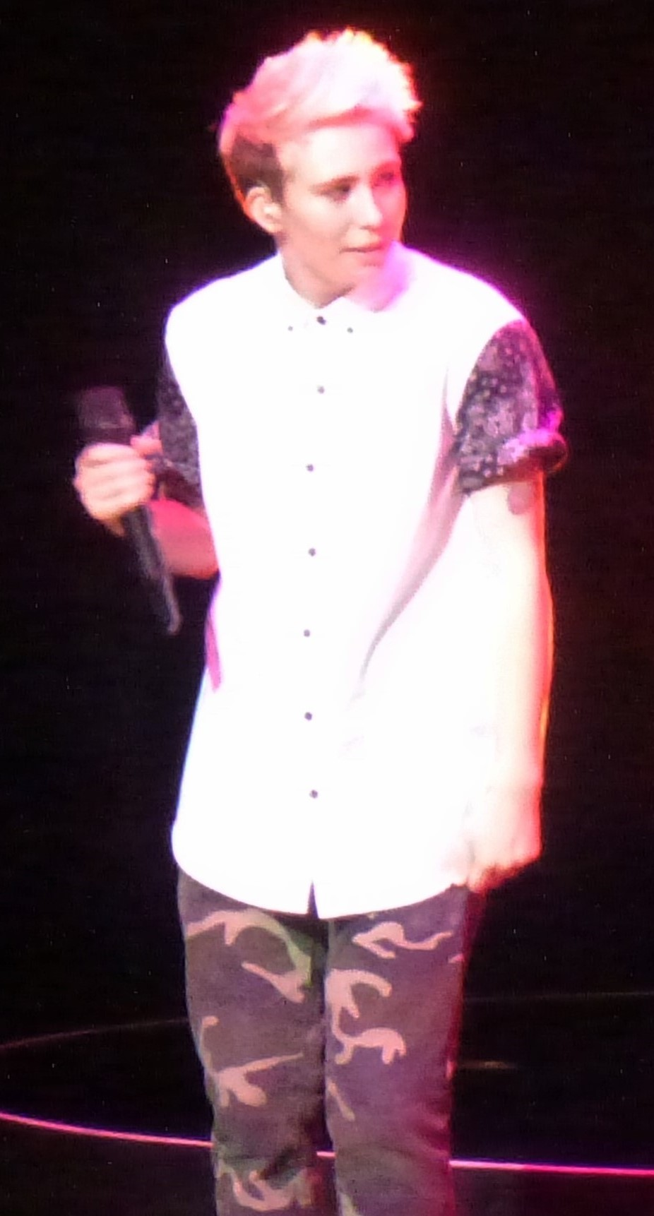 American music artist MK Nobilette performing at Wolf Trap, in Vienna, Virginia, during the 2014 American Idol summer tour. Cropped from this image: File:MK_Nobilette,_Majesty_Rose,_Malaya_Watson,_Wolf_Trap.jpg